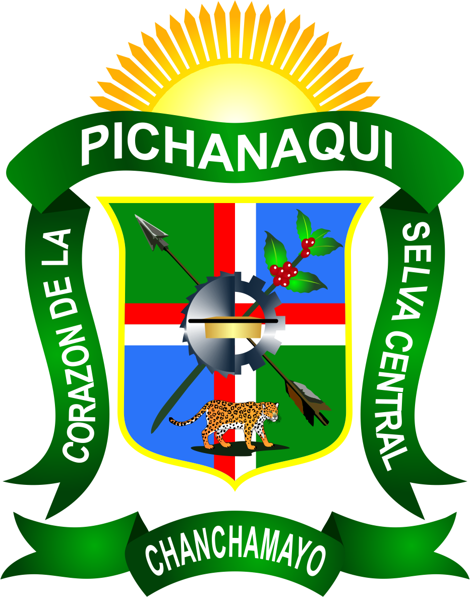 Pichanaki District - Province of Chanchamayo - Junin Region